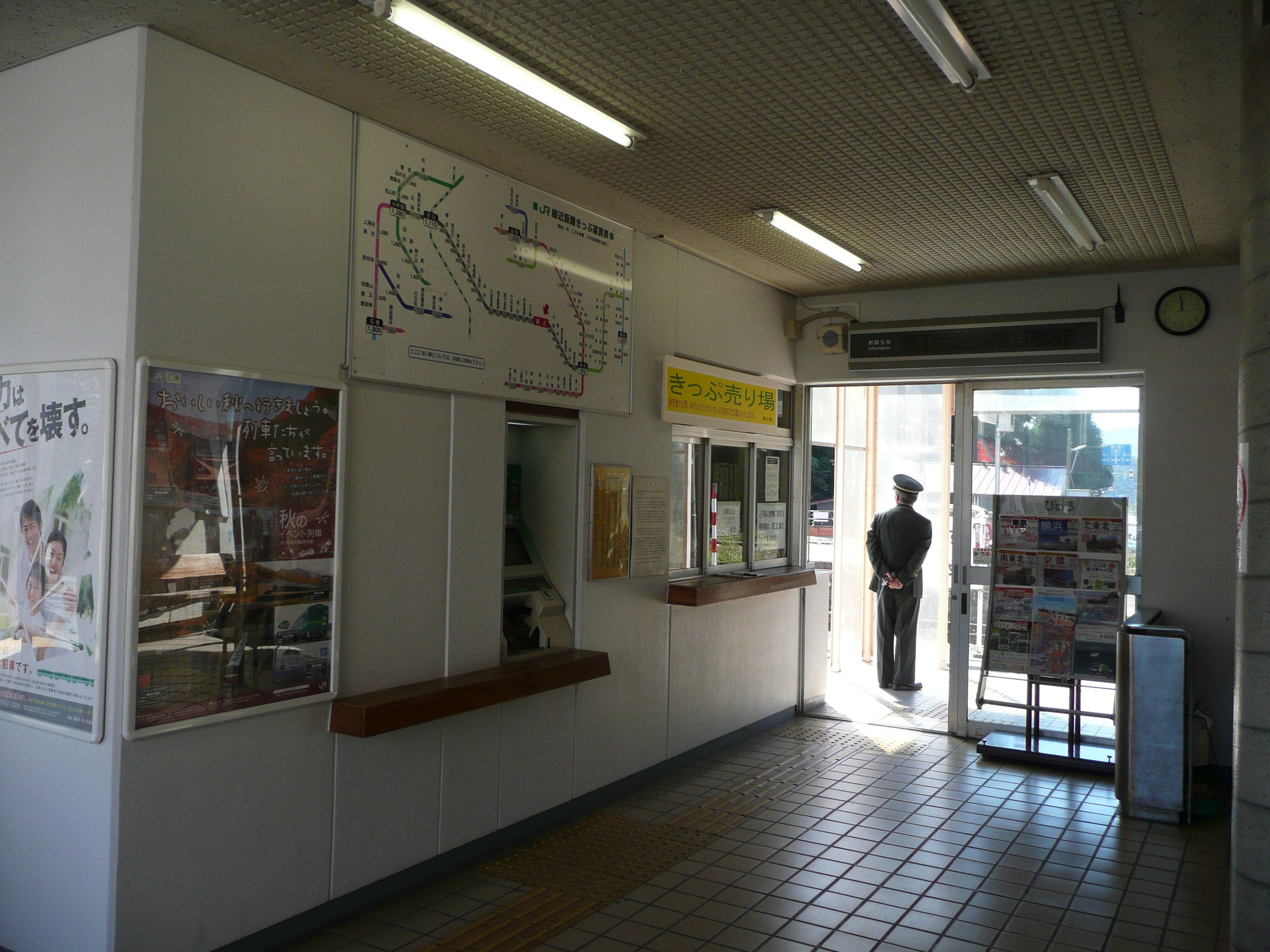 Mogami Station ticket gate